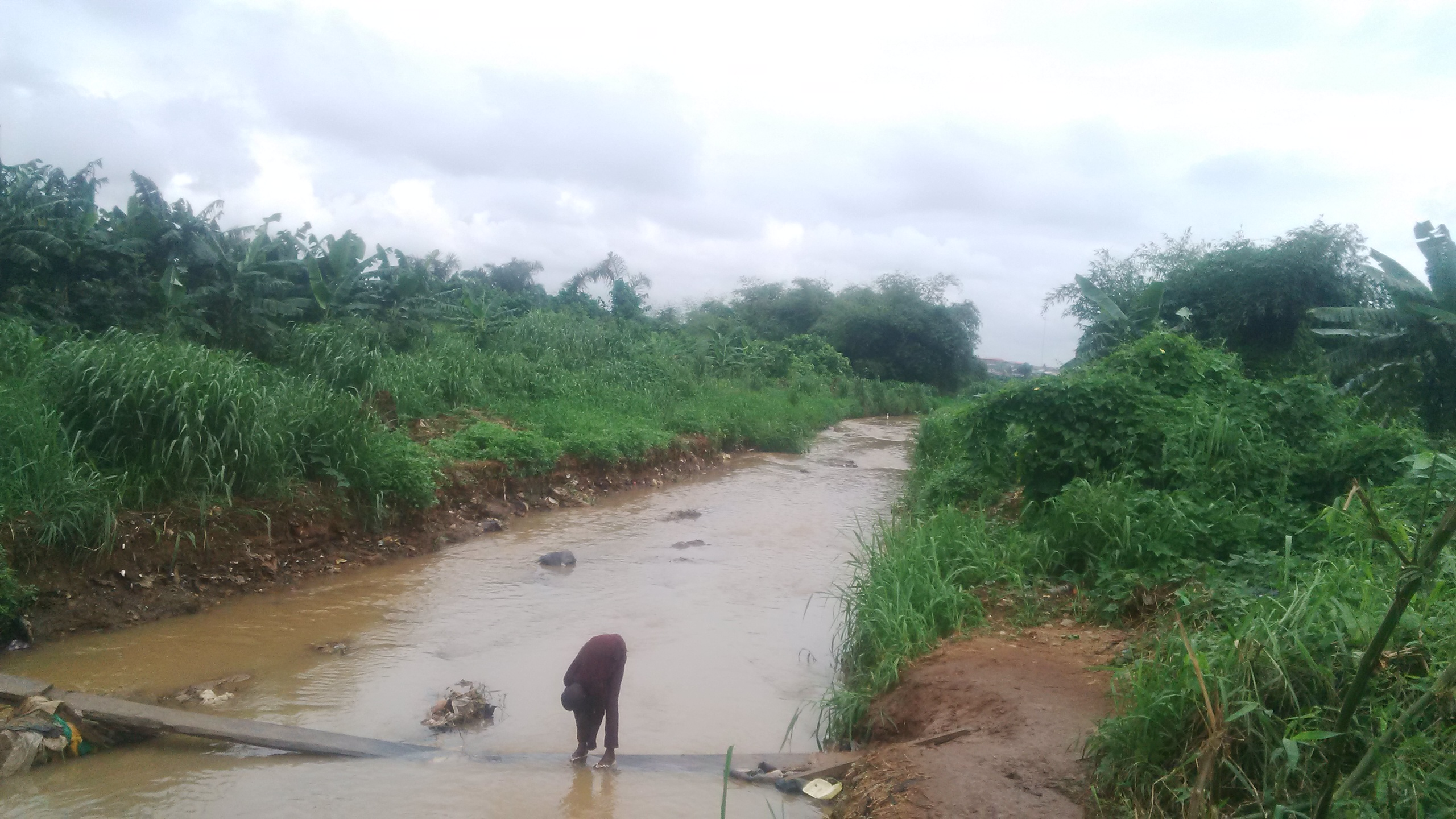 River Ilo, this river is situated at Ajegunle Ilo Lagos State Nigeria. This river stand as boundary between Lagos and Ogun State Nigeria.